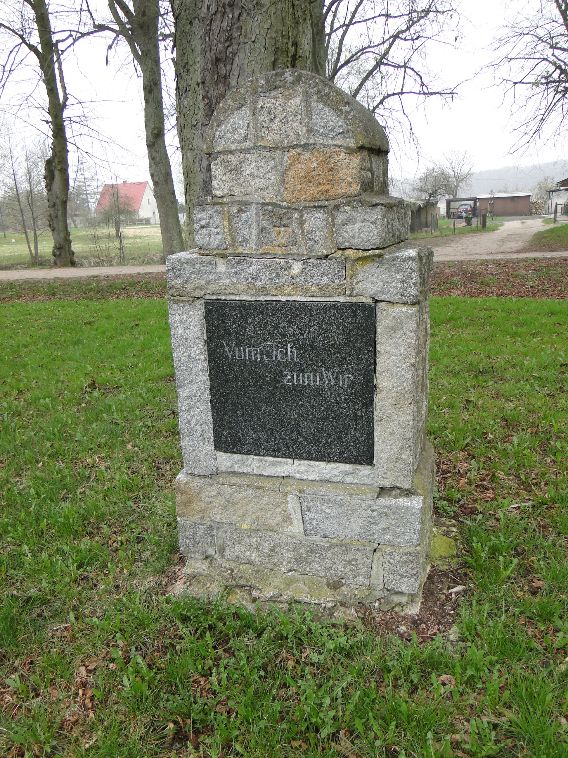 Memorial in Mühlenhof, district Ludwigslust-Parchim, Mecklenburg-Vorpommern, Germany